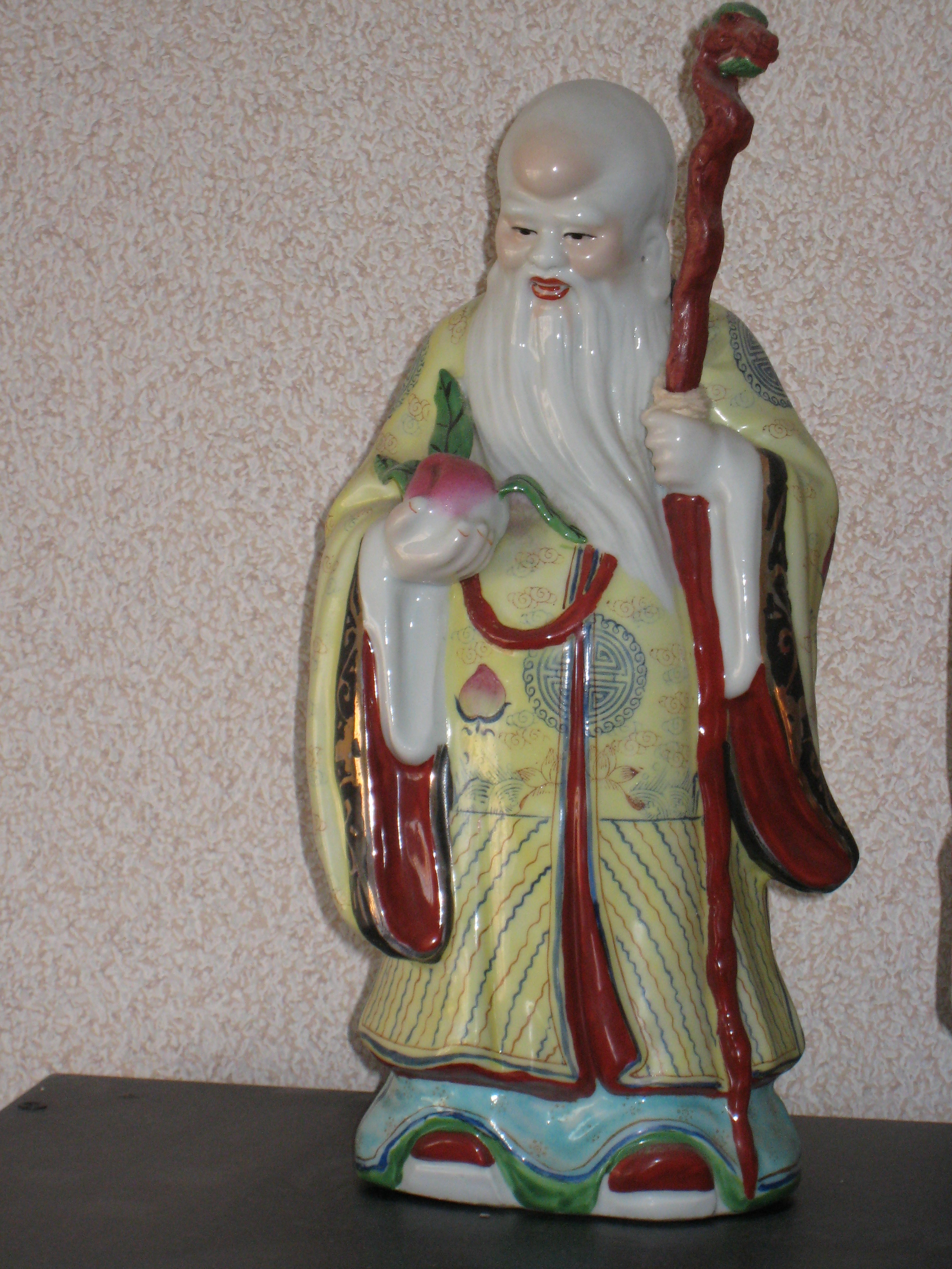 china statue of Shouxing